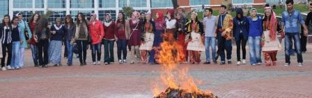 Kilis 7 Aralık University Nevruz Festival in March 2014